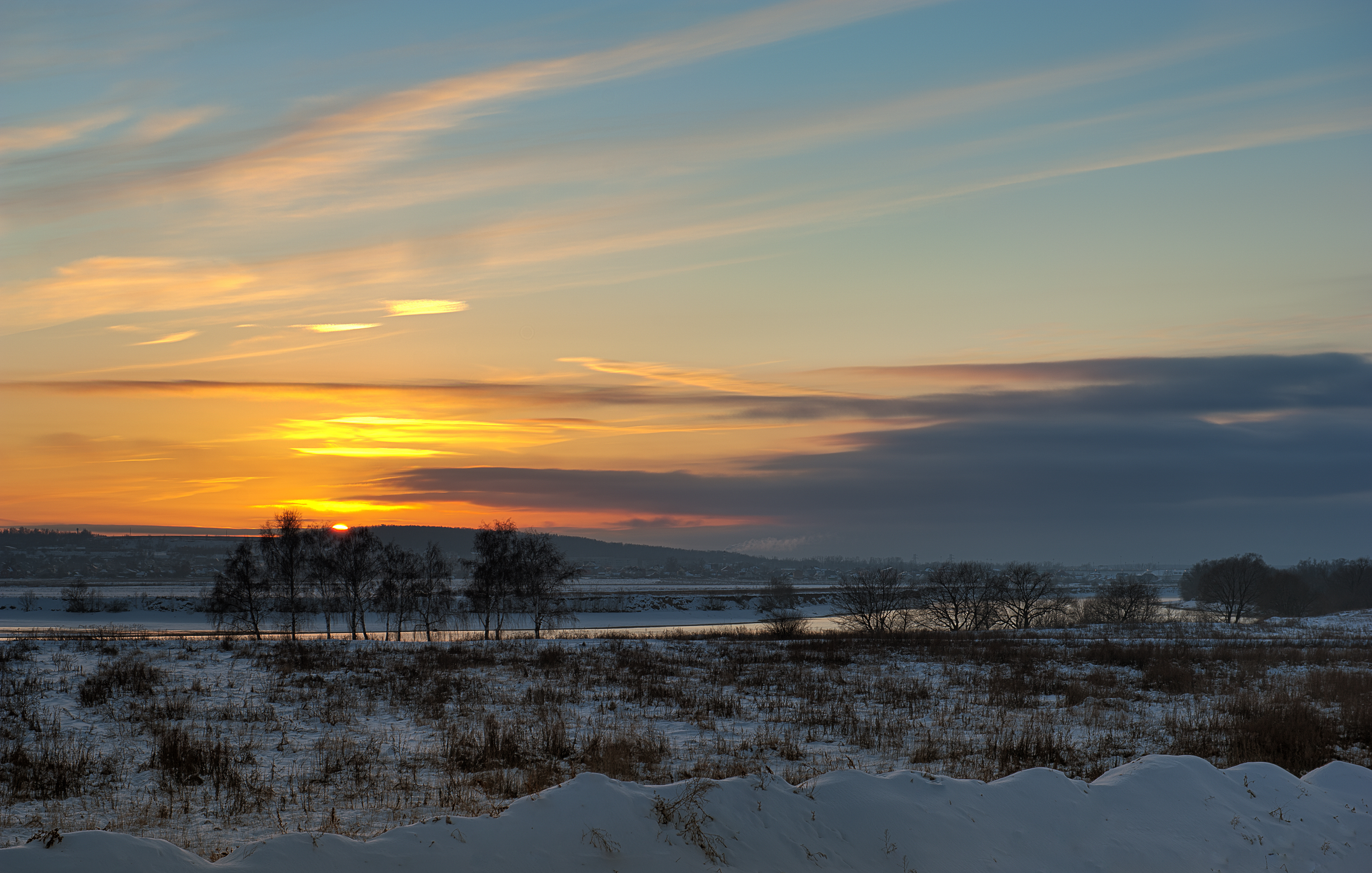 Russia, Moscow Region, winter, decline on the Moskva River